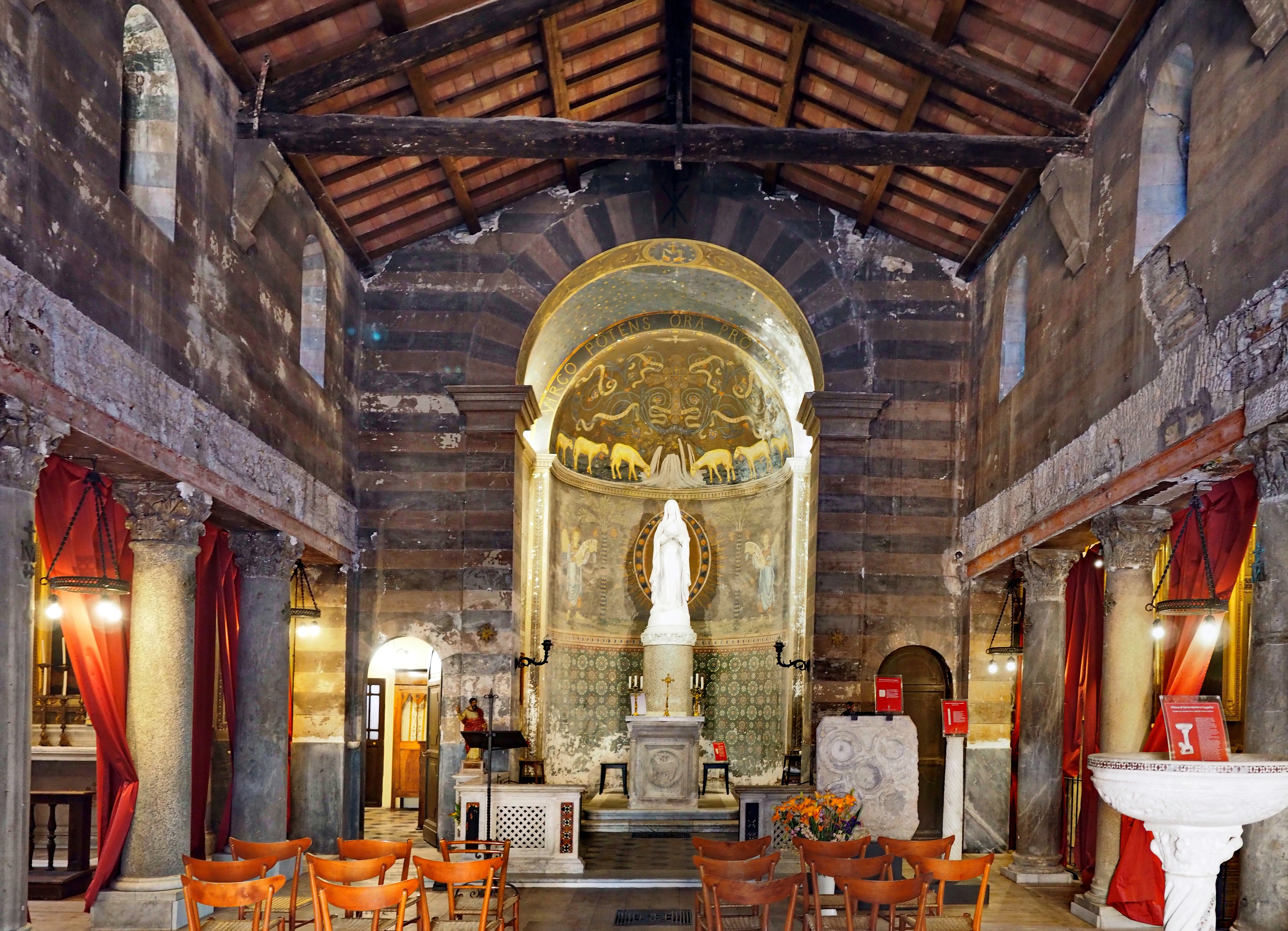 Santa Maria in Cappella (Rome); Nave